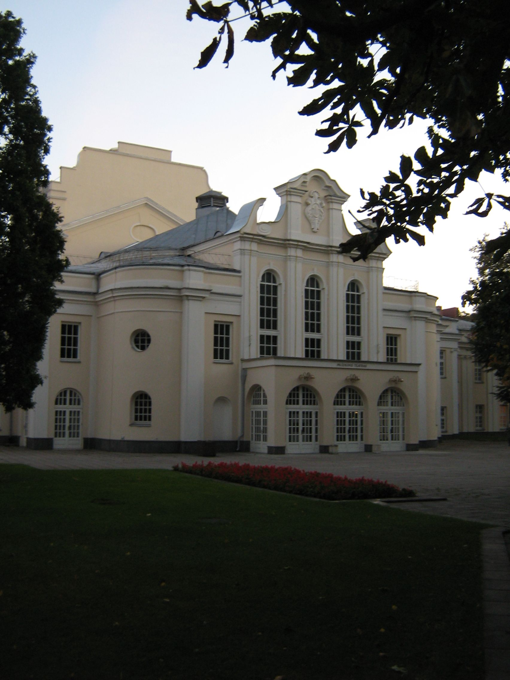 Kaunas city theatre.